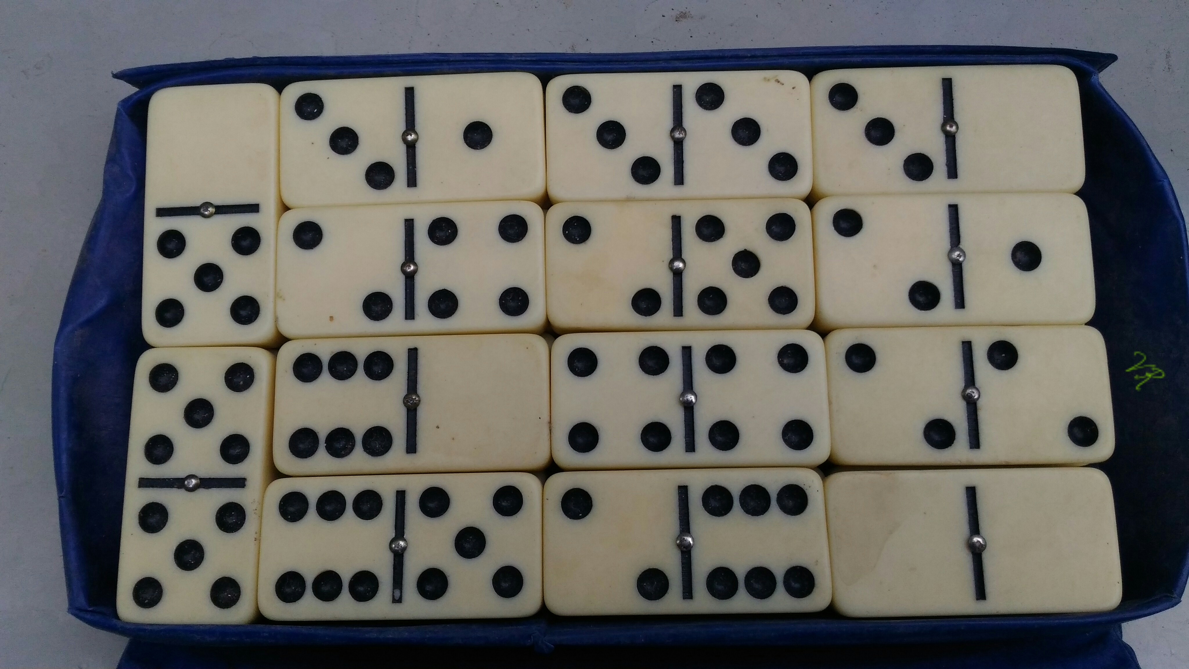 Dominoes_tiles